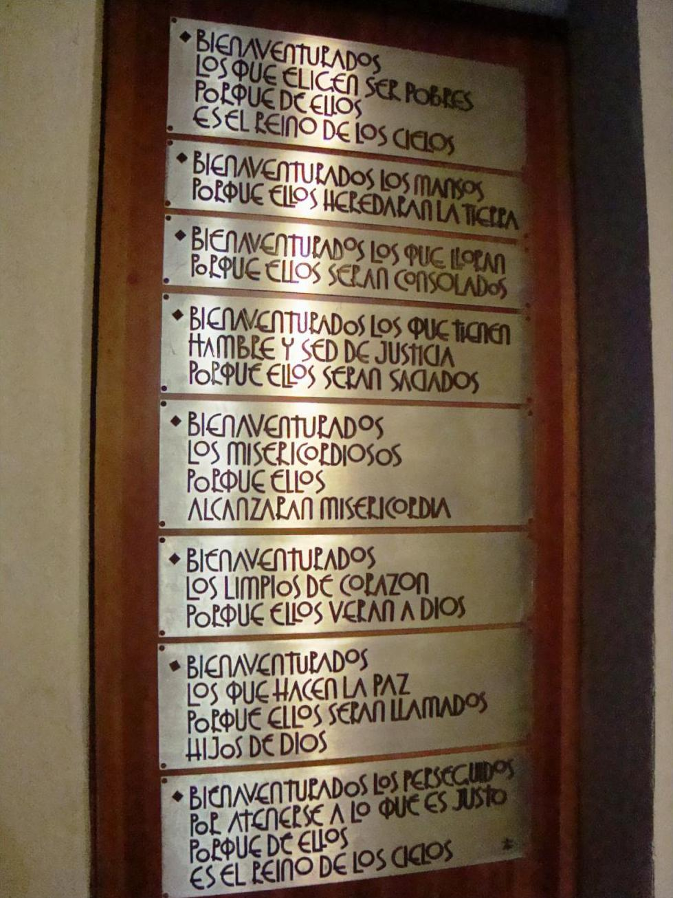 Saint Cajetan Church, Gustavo A. Madero, Federal District, Mexico : Beatitudes